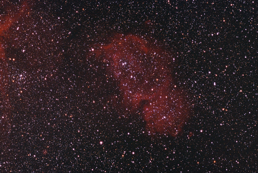 Gas nebula IC 1848 also called Embryo nebula, photographed at La Palma, Roque de los Muchachos (Degollada de los Franceses). Photo taken the following equipement: Camera/Telecope: Pentax SDHF 500 6.7/500 on GP/DX, tracing ST4 at 600mm (Sonnar 4/300 with 2x tele converter) Exposure: 45 min Film: Kodak E200 35mm (Push to 600 ASA) Scanner: Scan service Processing: Removed vignetting, colour and contrast correction. additional remark: faintest object visible at 6.5 mag